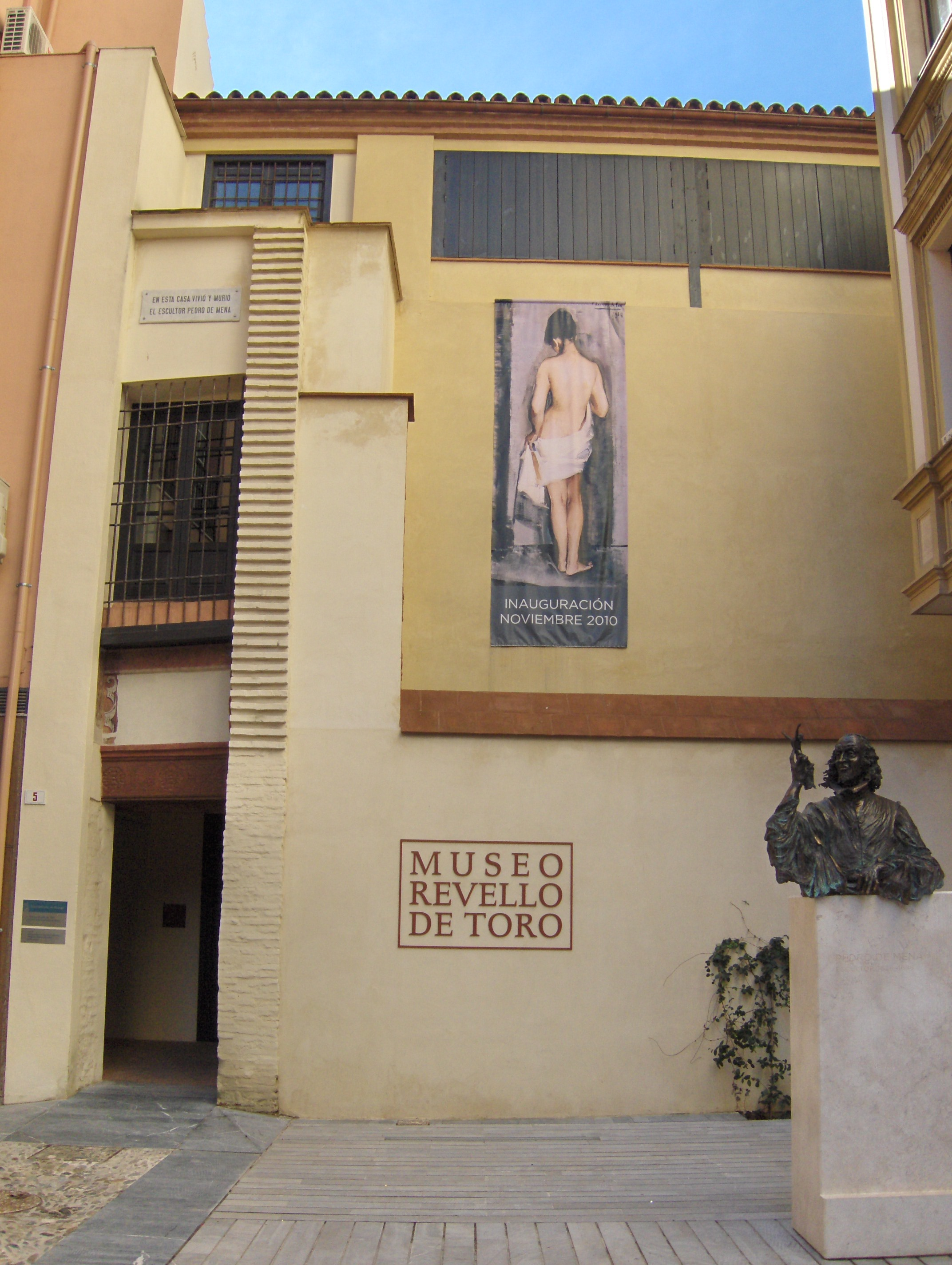 Museum Revello de Toro and house of the baroque sculptor Pedro de Mena, Málaga, Spain.